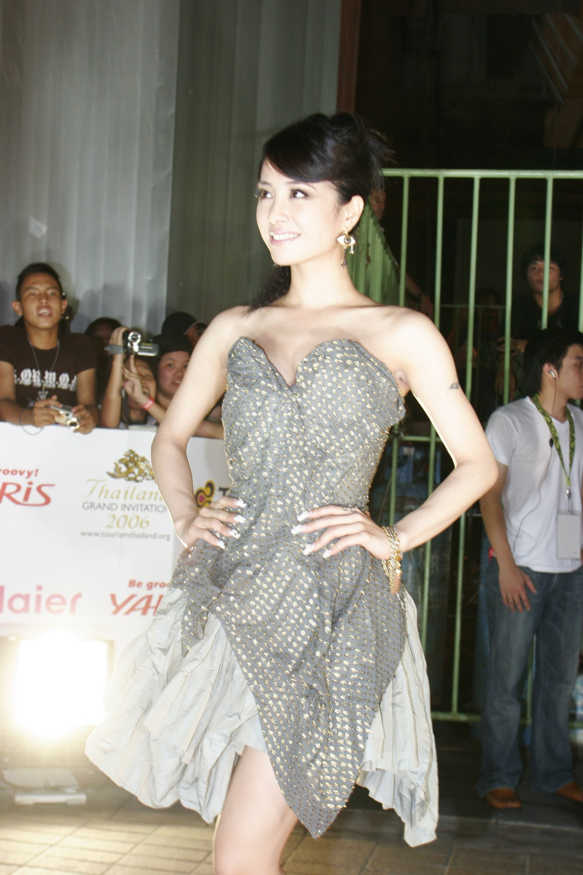 Jolin Tsai on the red carpet MTV Asia Awards 2006, Bangkok, Thailand.Bân-lâm-gú: Tshuà I-lîm tsāi 2006-nî Thài-kok Bān-kok kí-hîng ê MTV A-tsiu tuā-tsióng ê tshenn-kng tuā-tō siōng.